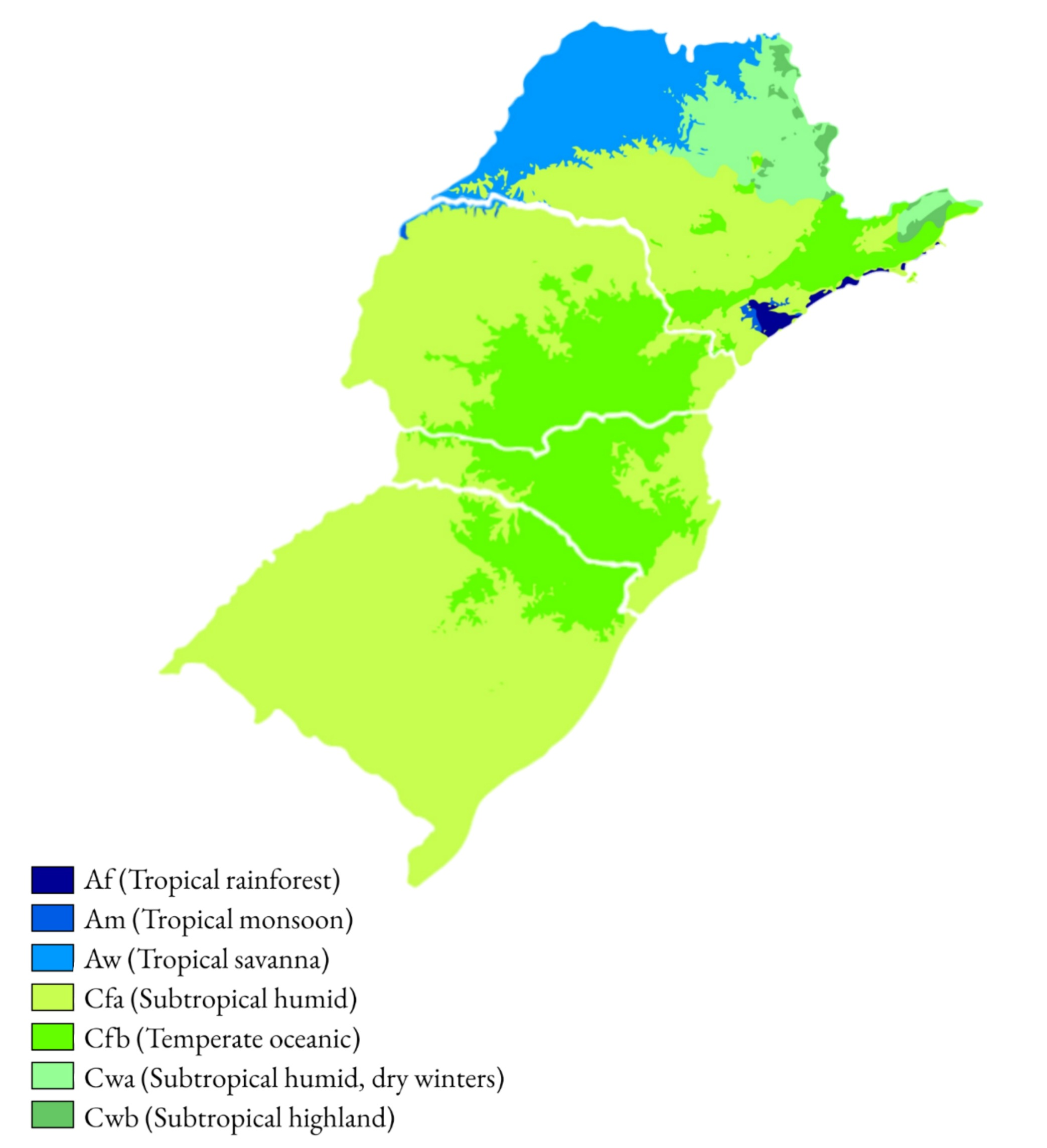 Kopper classification, Brasil, South region and state of São Paulo.